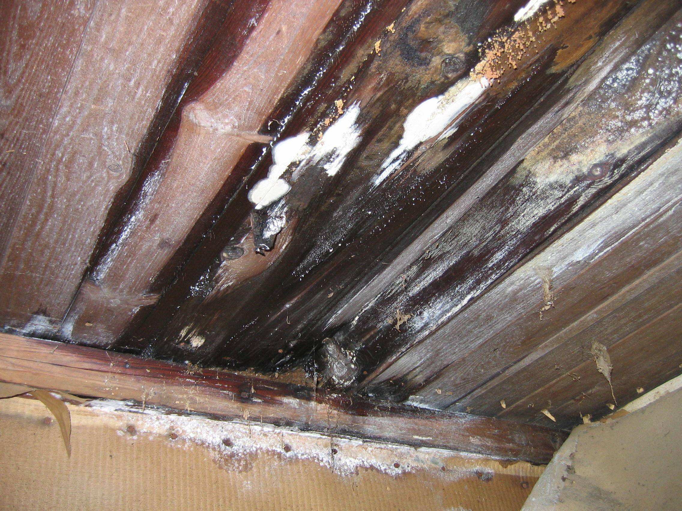 Damages caused by moisture in the inner roof of an old house.